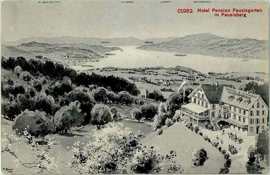 Picture postcard of the health resort Feusisgarten in Feusisberg, Canton Schwyz, Switzerland, vor 1913